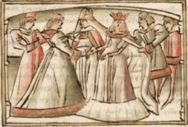 "Mariage de Philippe de Bourgogne et de Jeanne d'Auvergne". Illustration from a manuscript of Roman du comte d'Artois, a 15th century french romance. This illustration does not represent the historical Philip of Burgundy and and Joan of Auvergne, but fictional characters.